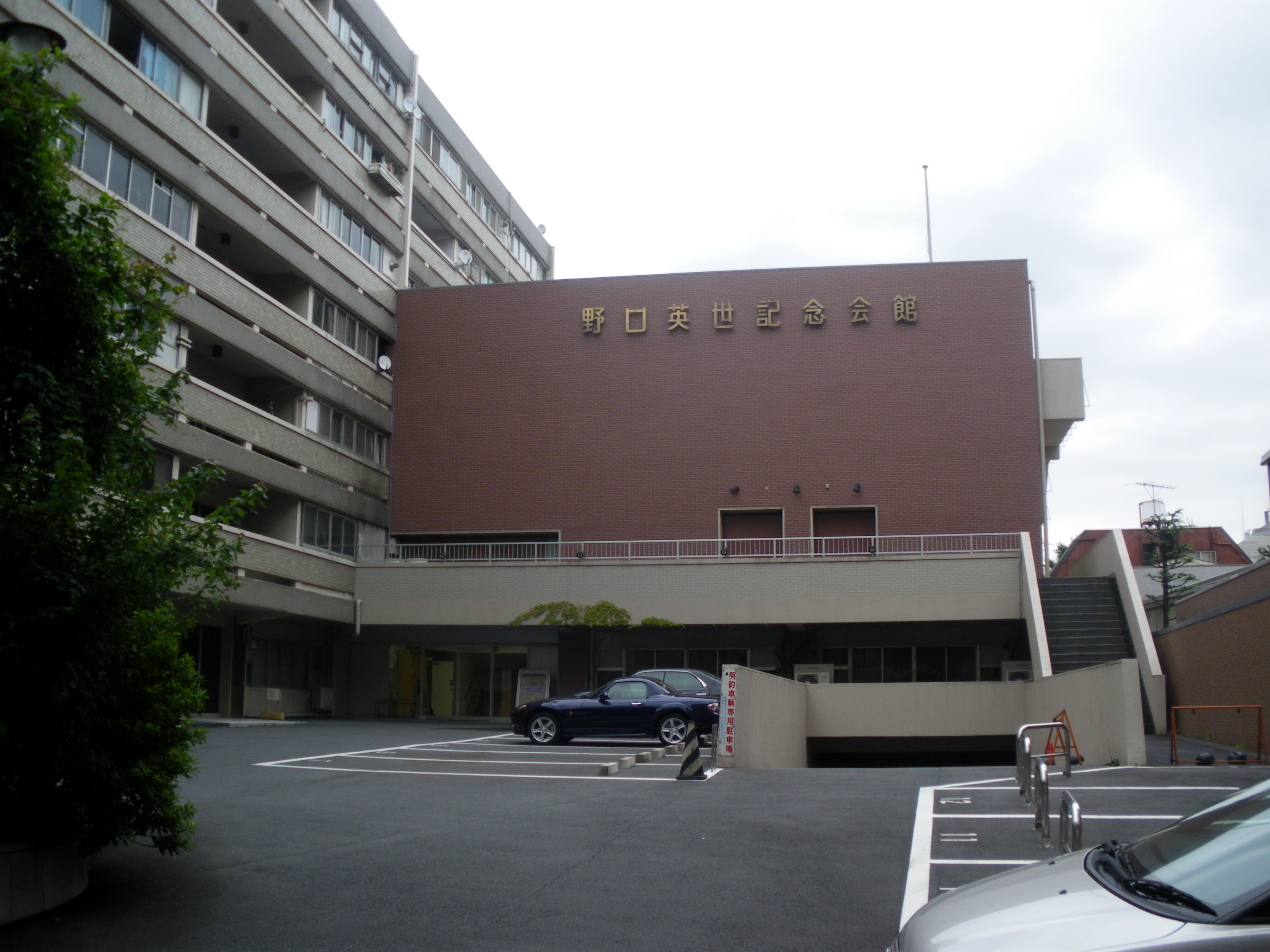 Noguchi Hideyo Memorial Hall(Daikyocho,Shinjku,Tokyo)